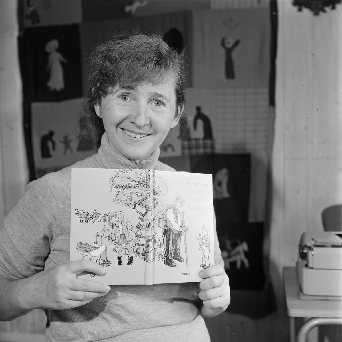 At home with norwegian author Anne-Cath. Vestly (1920-2008), 1964